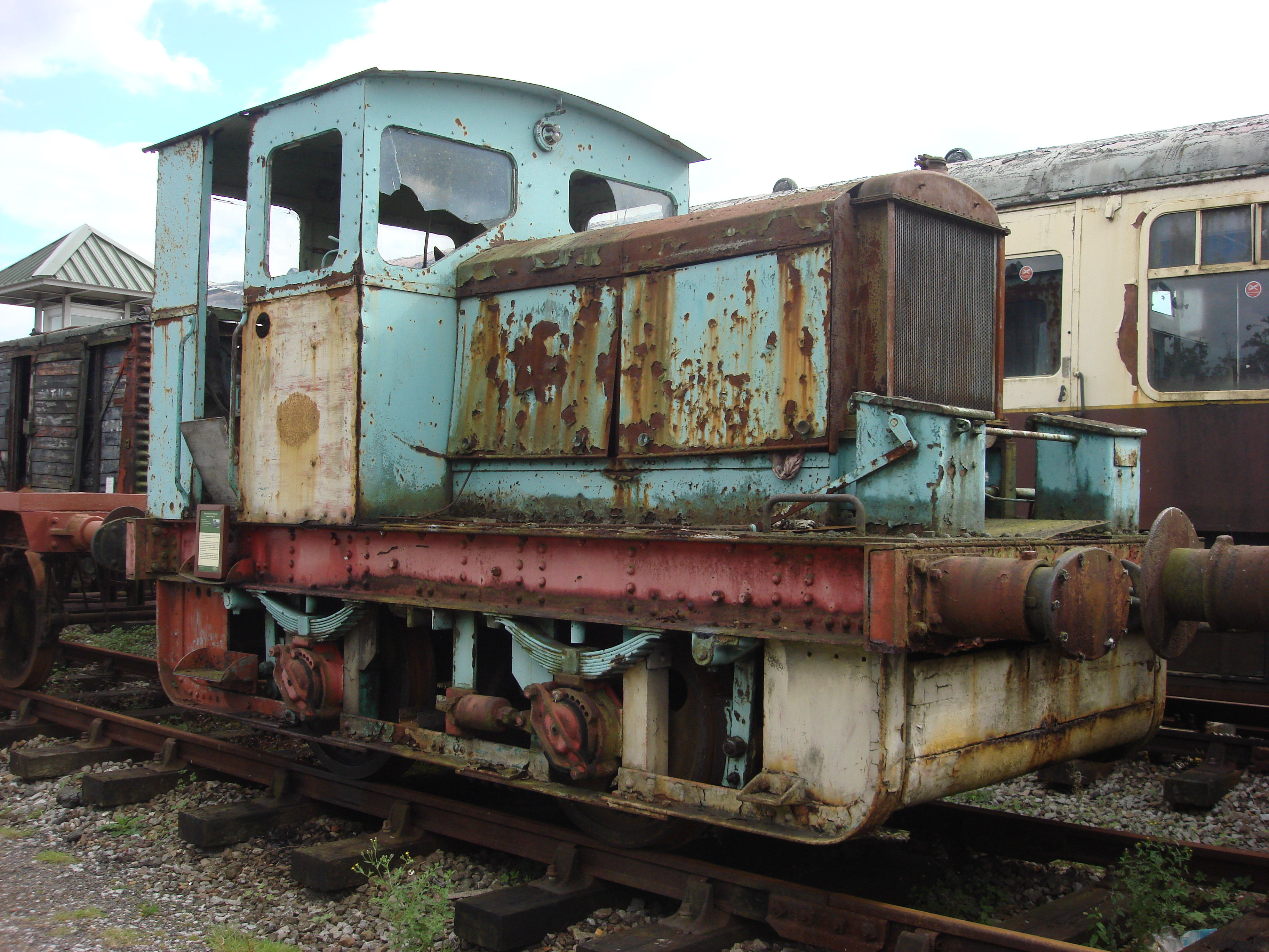 Hibberd 0-4-0DM No. 2102 at the Buckinghamshire Railway Centre